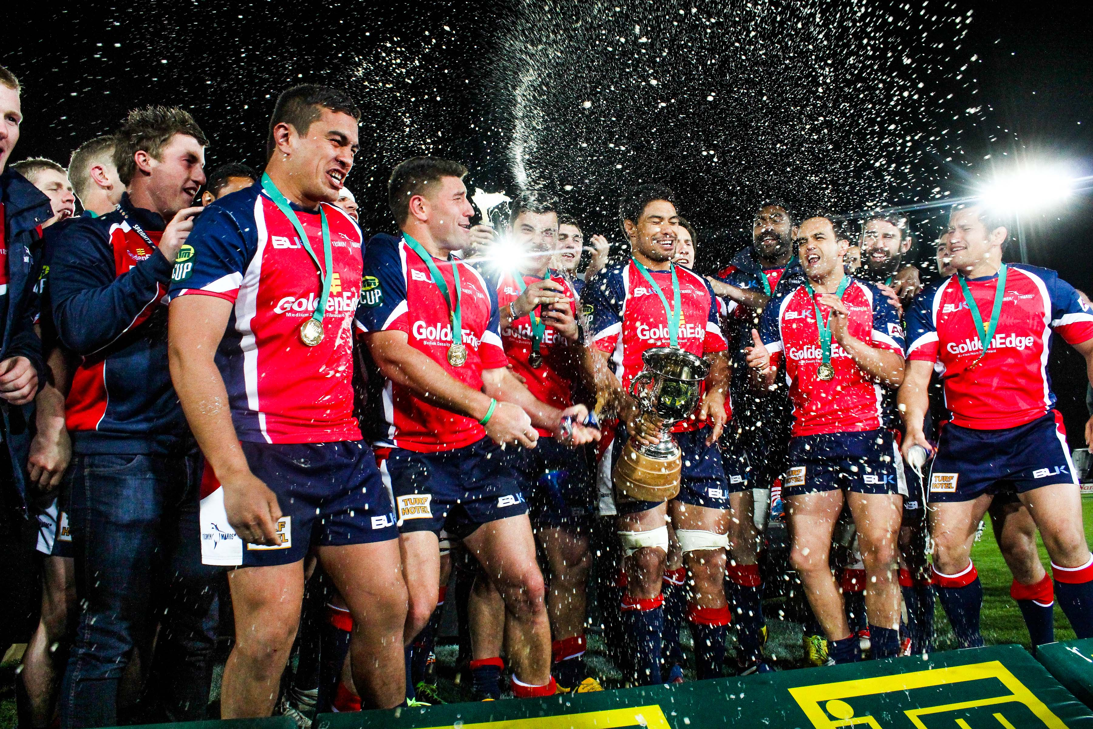 ITM Cup Final Tasman Makos vs Hawkes Bay 25/10/2013 Trafalgar Park Nelson